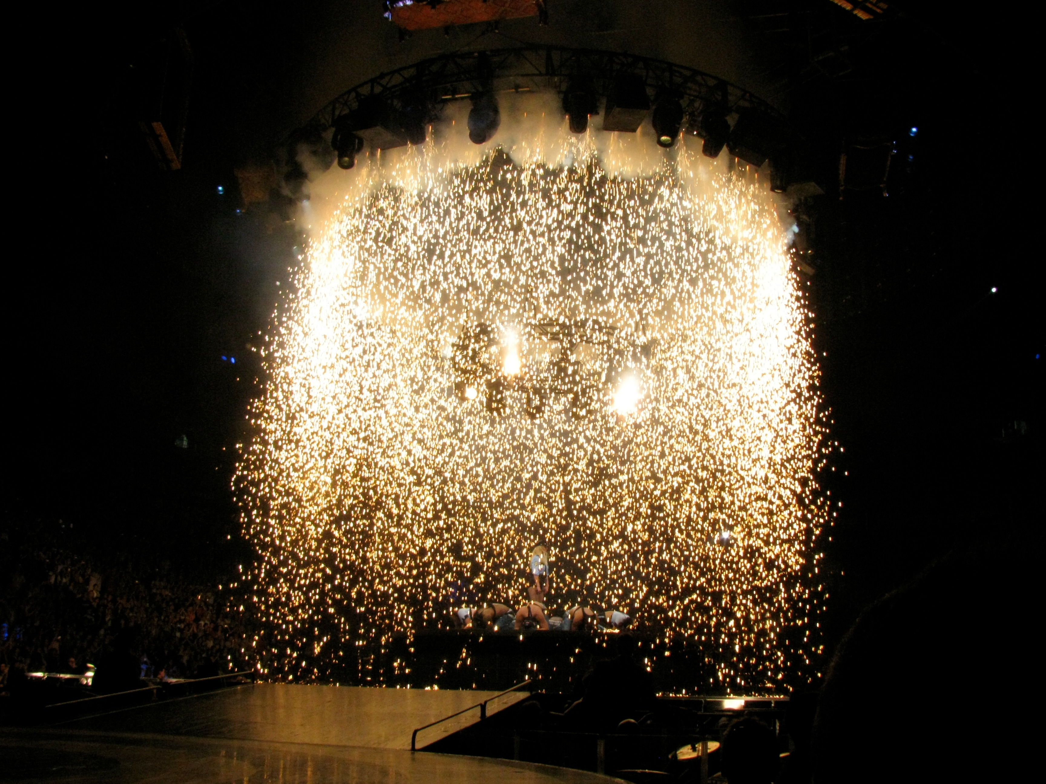 The Show's end with Womanizer